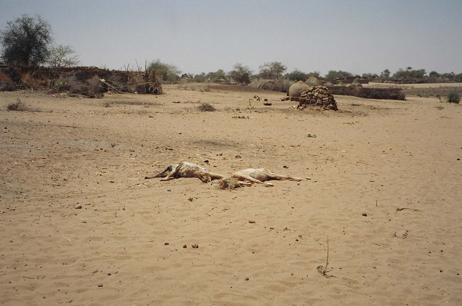 Caption:Dead animals in Tawilla – Animal carcasses rotting near the burned and looted village of Tawilla, west of El Fasher in North Darfur. On February 27 at 6:00 AM, Jingaweit militia attacked Tawilla, displacing nearly all of the town’s 14,000 residents along with 9,000 previously displaced persons who had sought shelter in the town. According to some of the few residents who remained in Tawilla following the attack, the Jingaweit killed 17 people in the town and 68 people in surrounding areas. In addition, residents reported that the militias raped approximately 100 women and abducted approximately 150 women and 200 children.